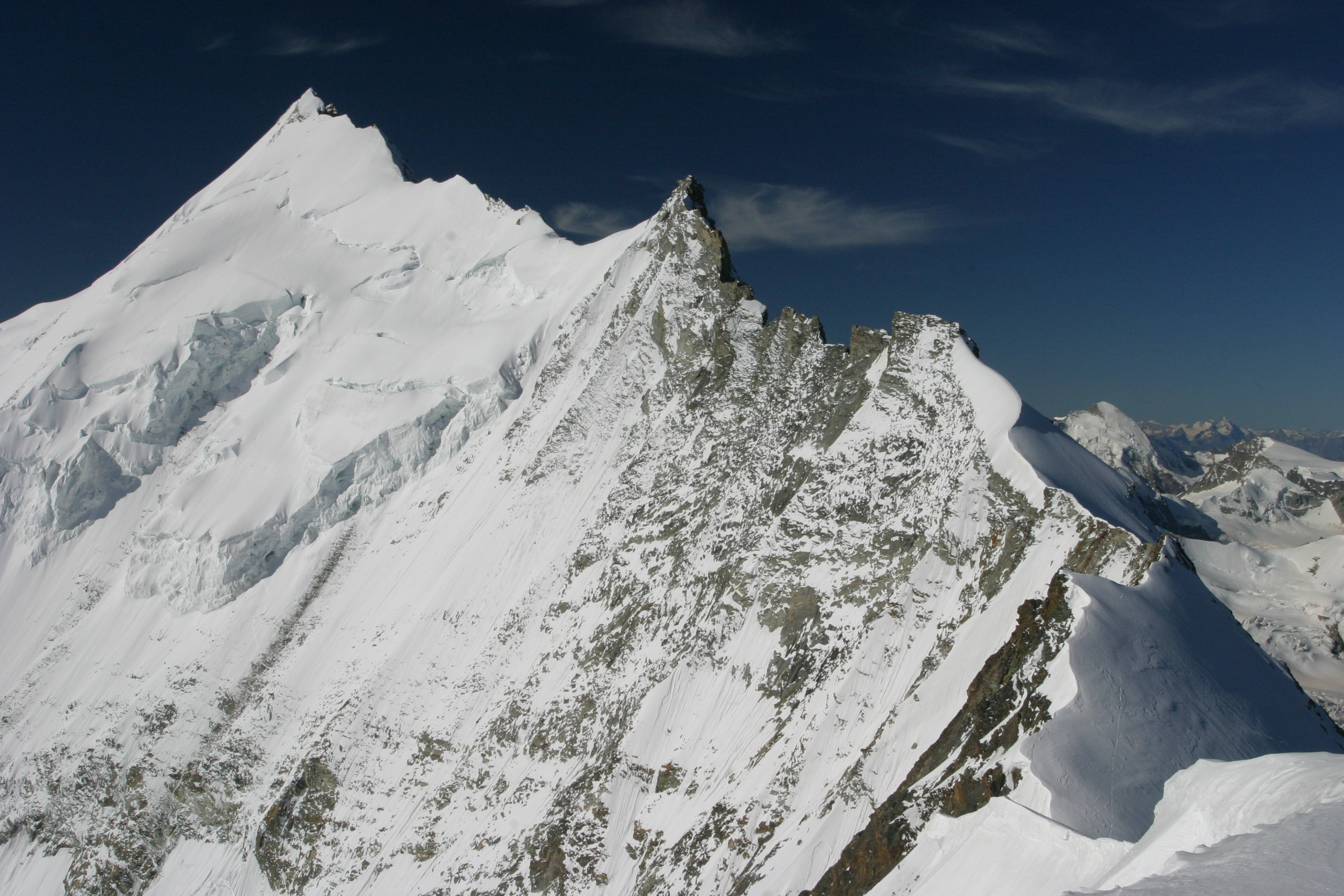 Weisshorn with the north ridge (Grand Gendarme) viewed from the Bishorn